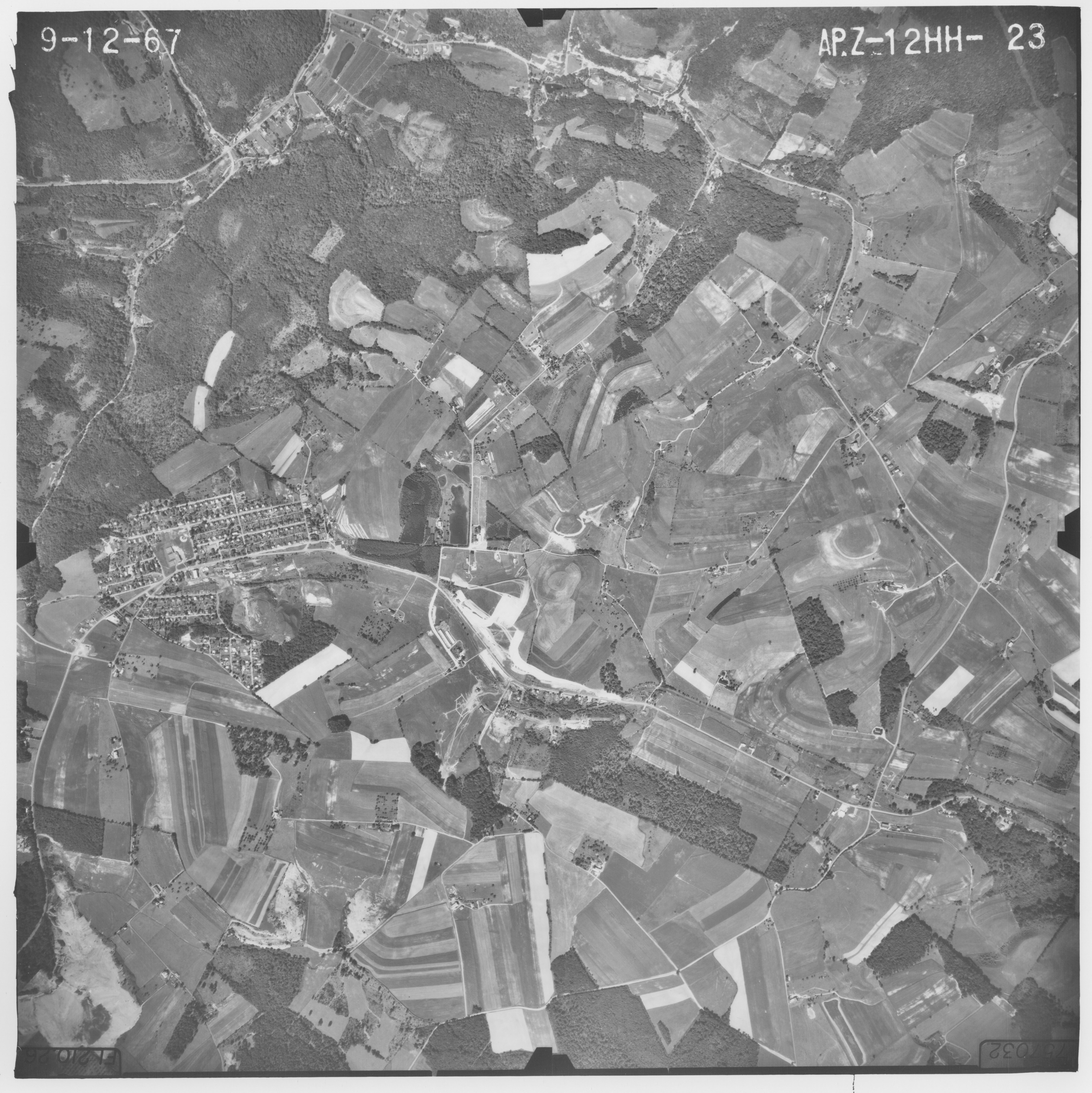 Aerial photograph of Jerome, Pennsylvania, Sept. 12, 1967, by the United States Department of Agriculture, Stabilization and Conservation Service.